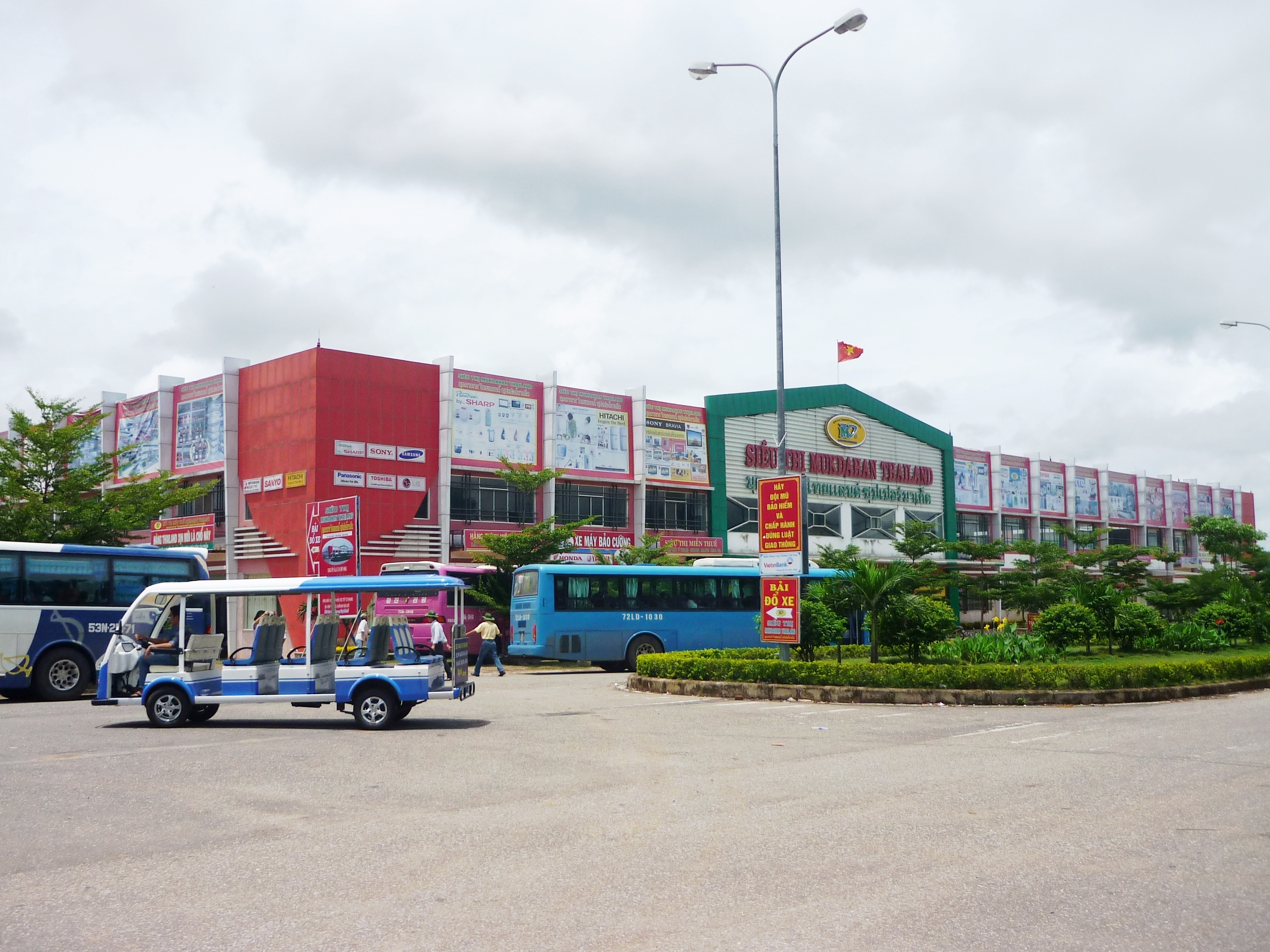 A shopping mall in Lao Bảo Special Economic-Trade Zone, near Lao Bảo border gate (to Lao PDR), Quảng Trị Province, Việt Nam